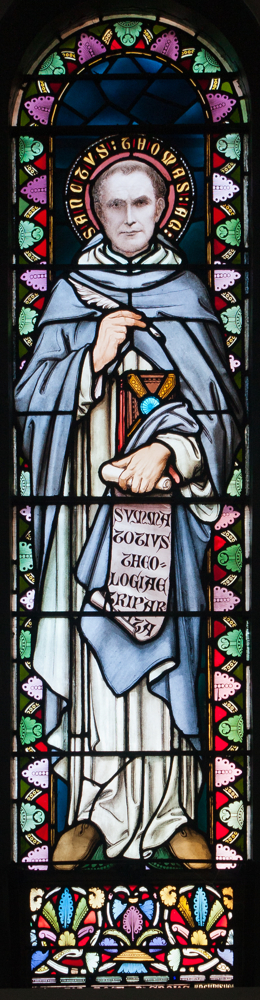 18th stained glass window in the ambulatory (beginning from the left on the western side), depicting Saint Thomas Aquinas. Manufactured by Wailes of Newcastle.